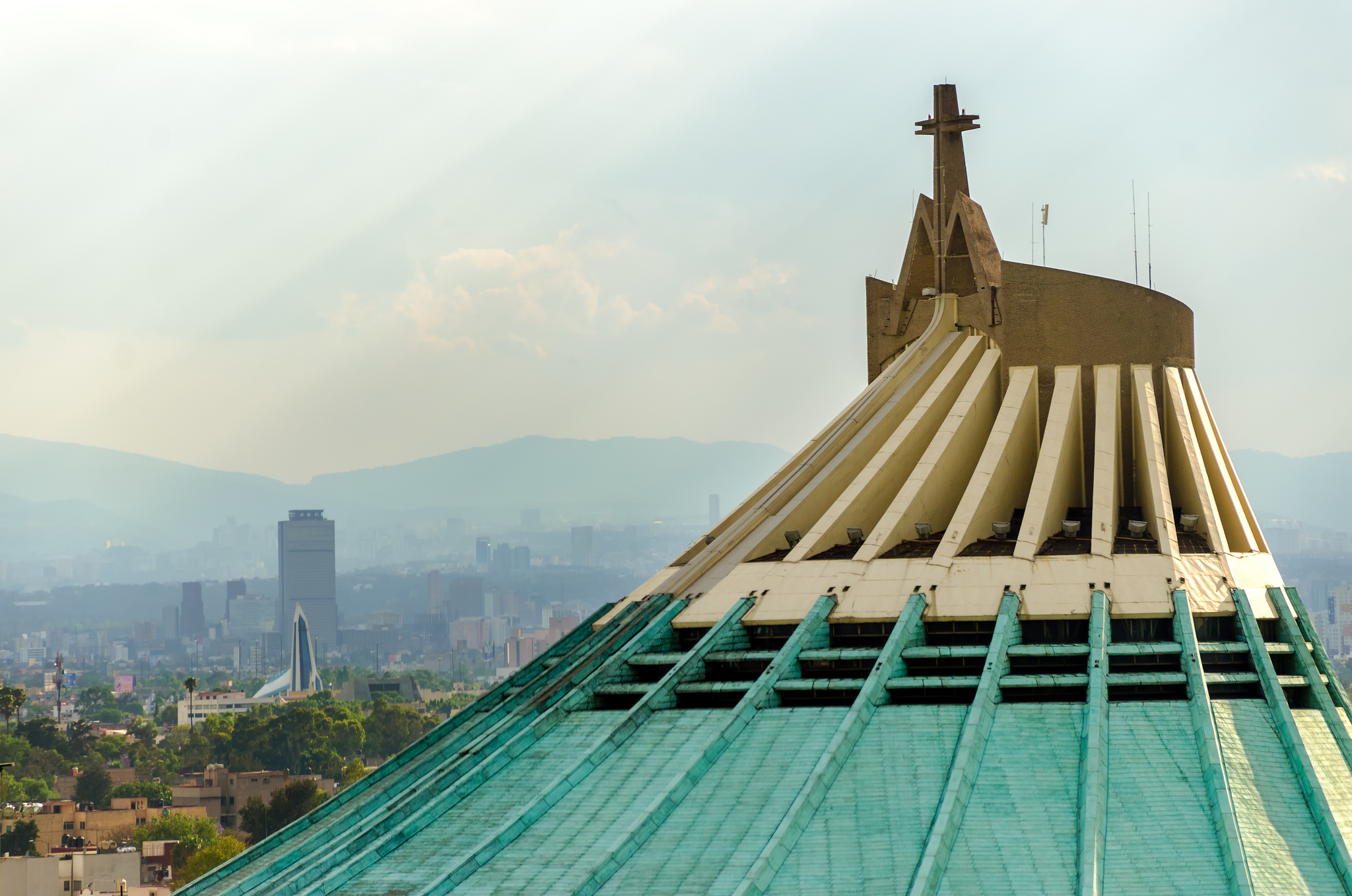 Nueva Basílica de Nuestra Señora de Guadalupe the new Basilica of Our Lady of Guadalupe in Mexico City.